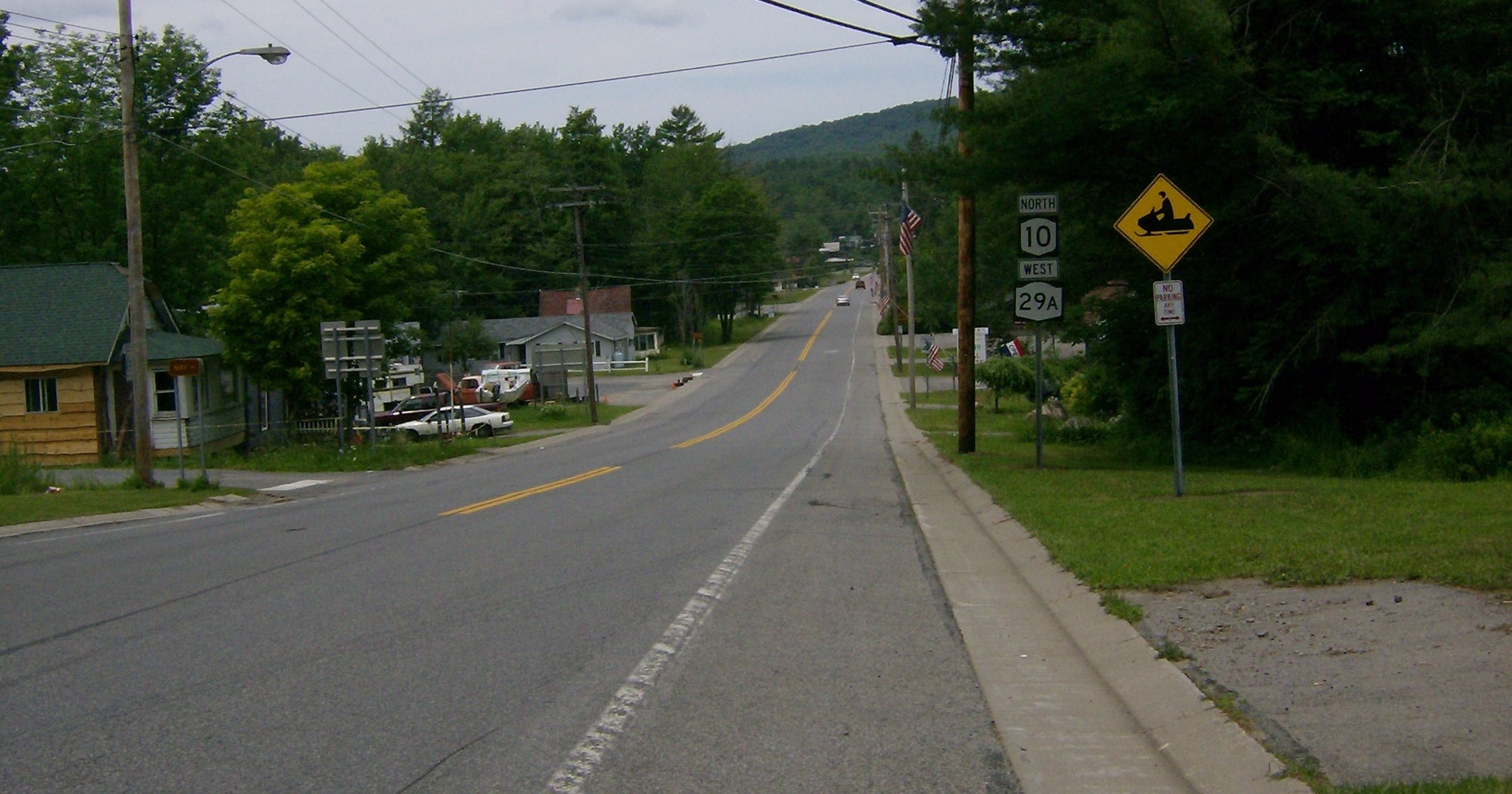 Routes 10 and 29A overlapped in Caroga Lake, just north/west of the merge point, with the former Sherman's amusement park and Vrooman's in the background.